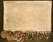 The Treaty of Melno was a peace treaty ending the Gollub War. It was signed on September 27, 1422 between the Teutonic Knights and an alliance of the Kingdom of Poland and the Grand Duchy of Lithuania at Lake Melno, east of Graudenz. The treaty resolved territorial disputes between the Knights and Lithuania regarding Samogitia, which dragged since 1382, and determined the Prussian–Lithuanian border, which remained unchanged for about 500 years. A portion of the original border partially survives as the border between the Republic of Lithuania and Kaliningrad Oblast, Russia, making it one of the most stable national borders in Europe.